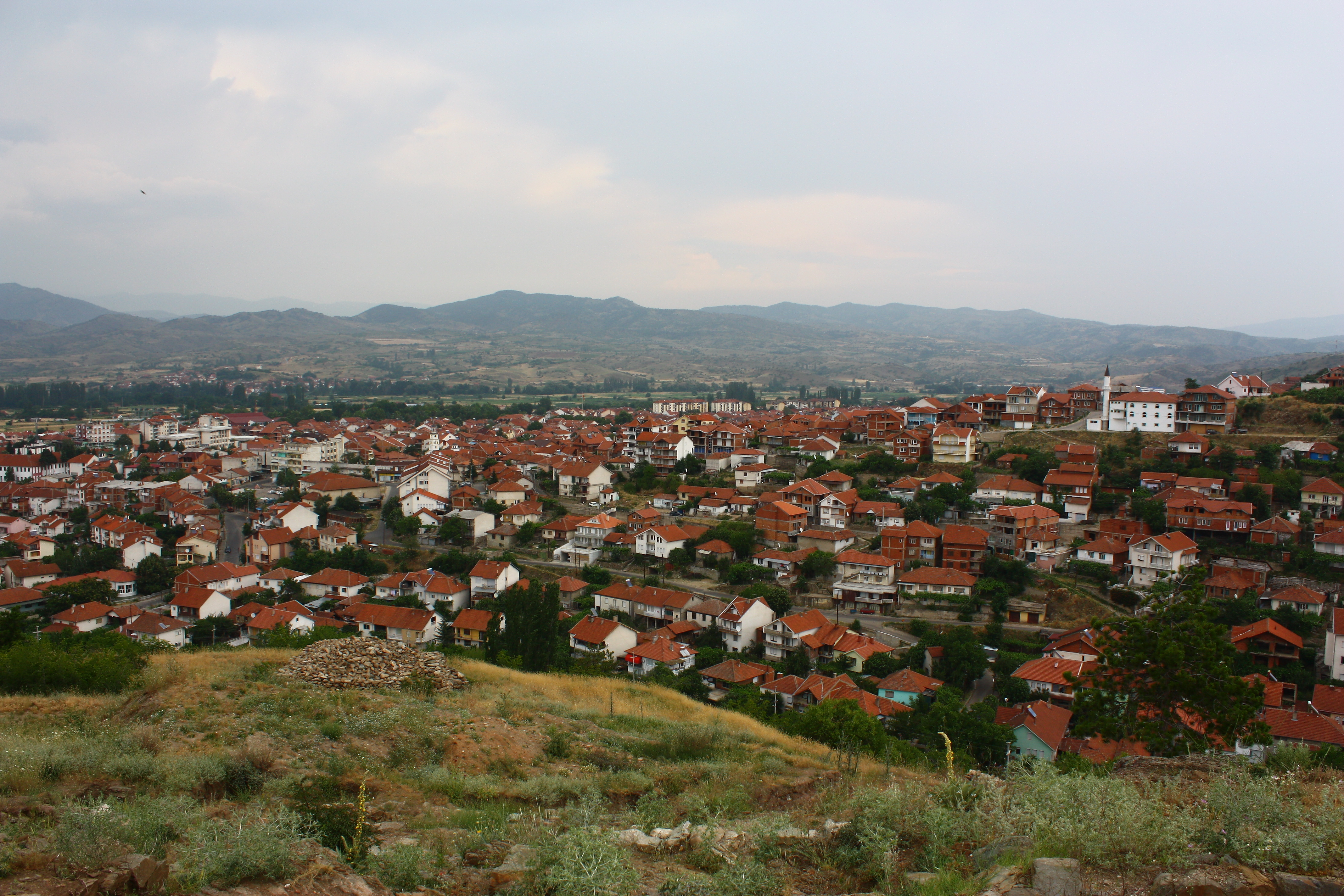 Vinica, Macedonia